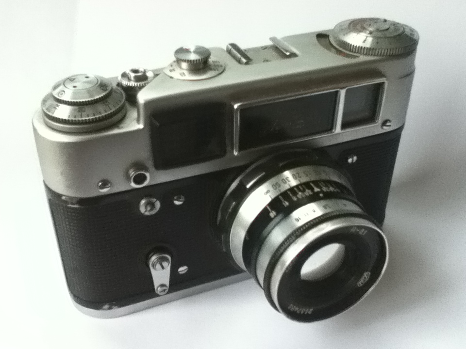 A Soviet built FED-4 camera